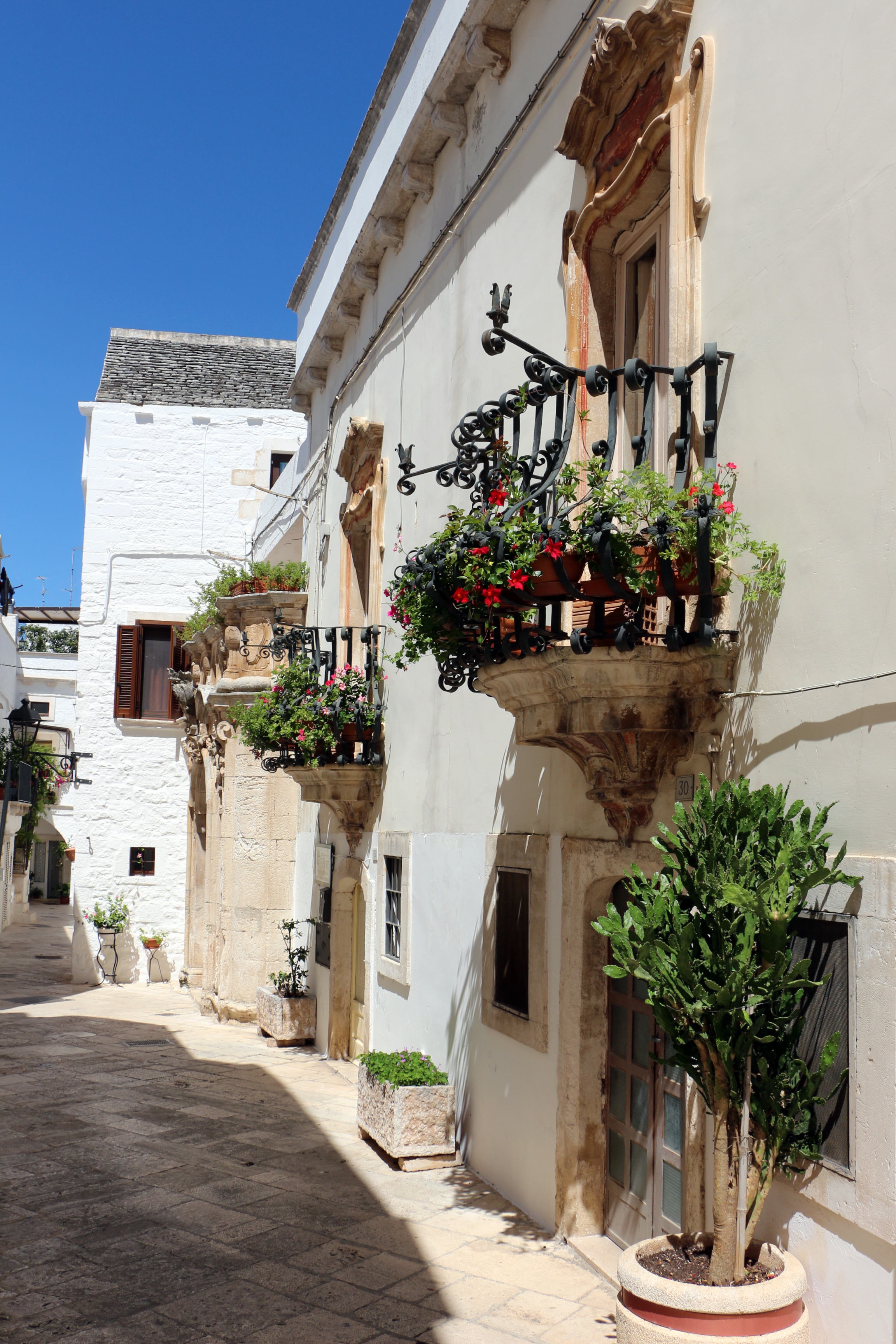 Locorotondo